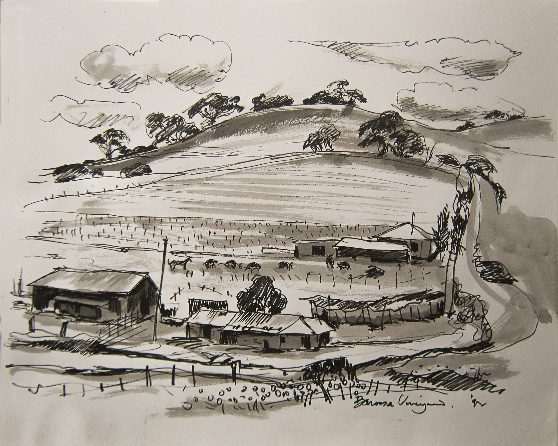 Ink and wash drawing of a Barossa vineyard by Ian Sprague 1992; photographed in a private collection at Elwood Victoria